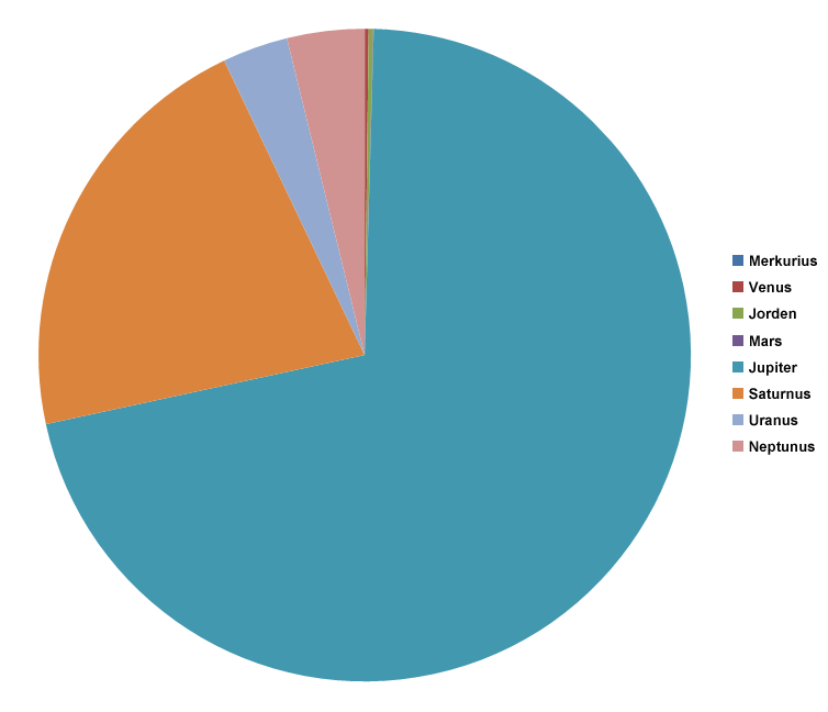 Pie chart of the masses of the Solar planets